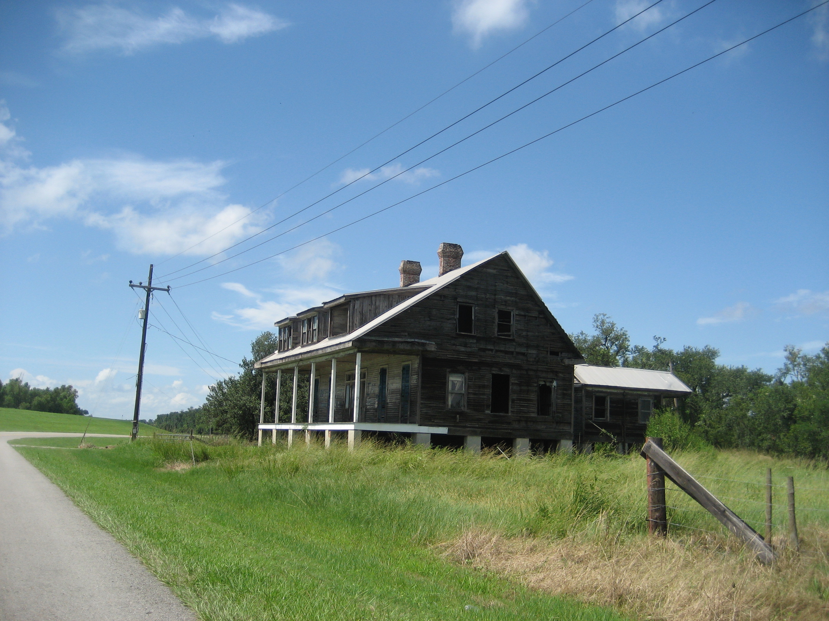 Harlem Plantation House on Highway 39 between Davant and Phoenix, Plaquemines Parish, Louisiana.